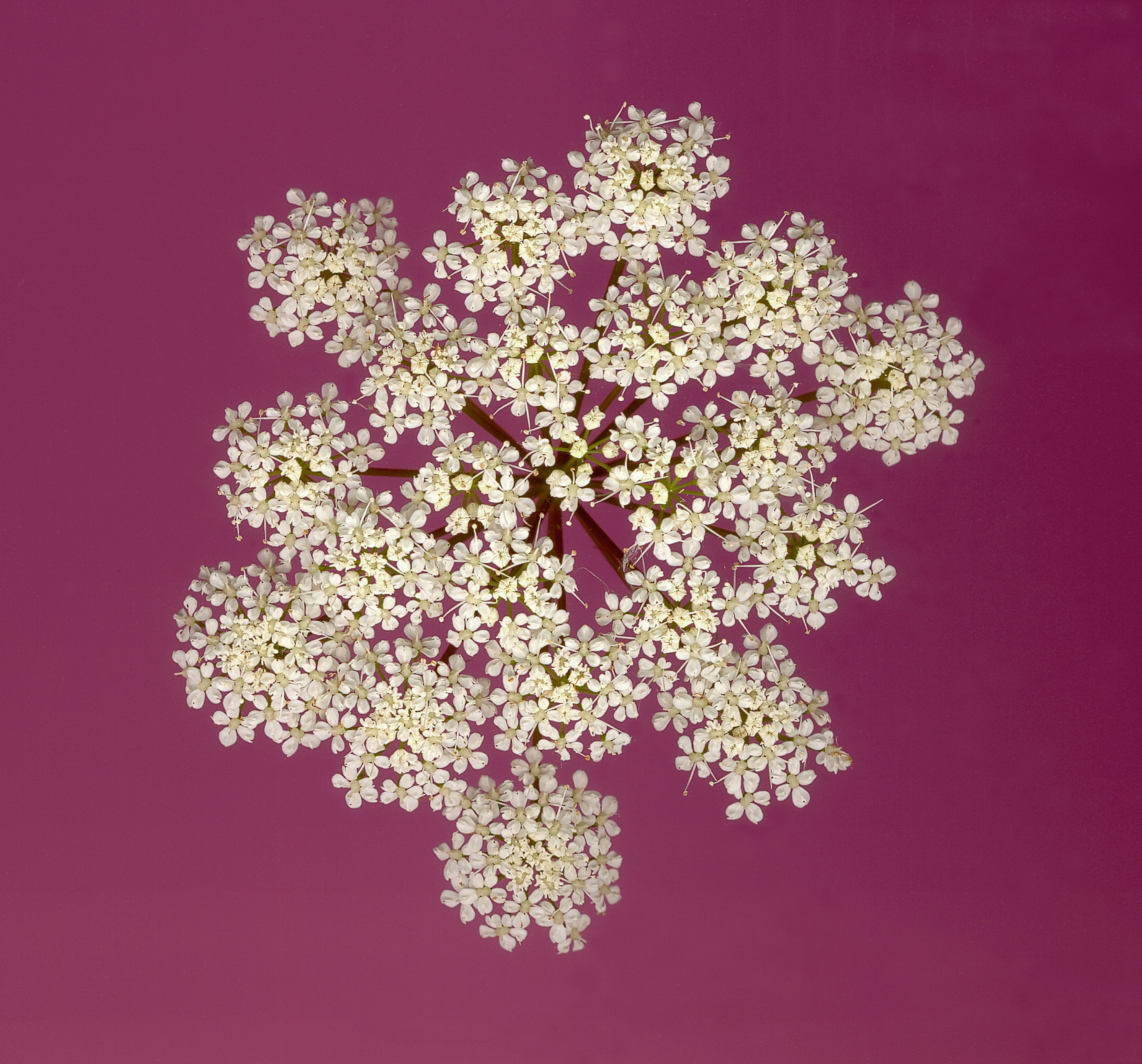 Umbel of the Ground-elder (Aegopodium podagraria)